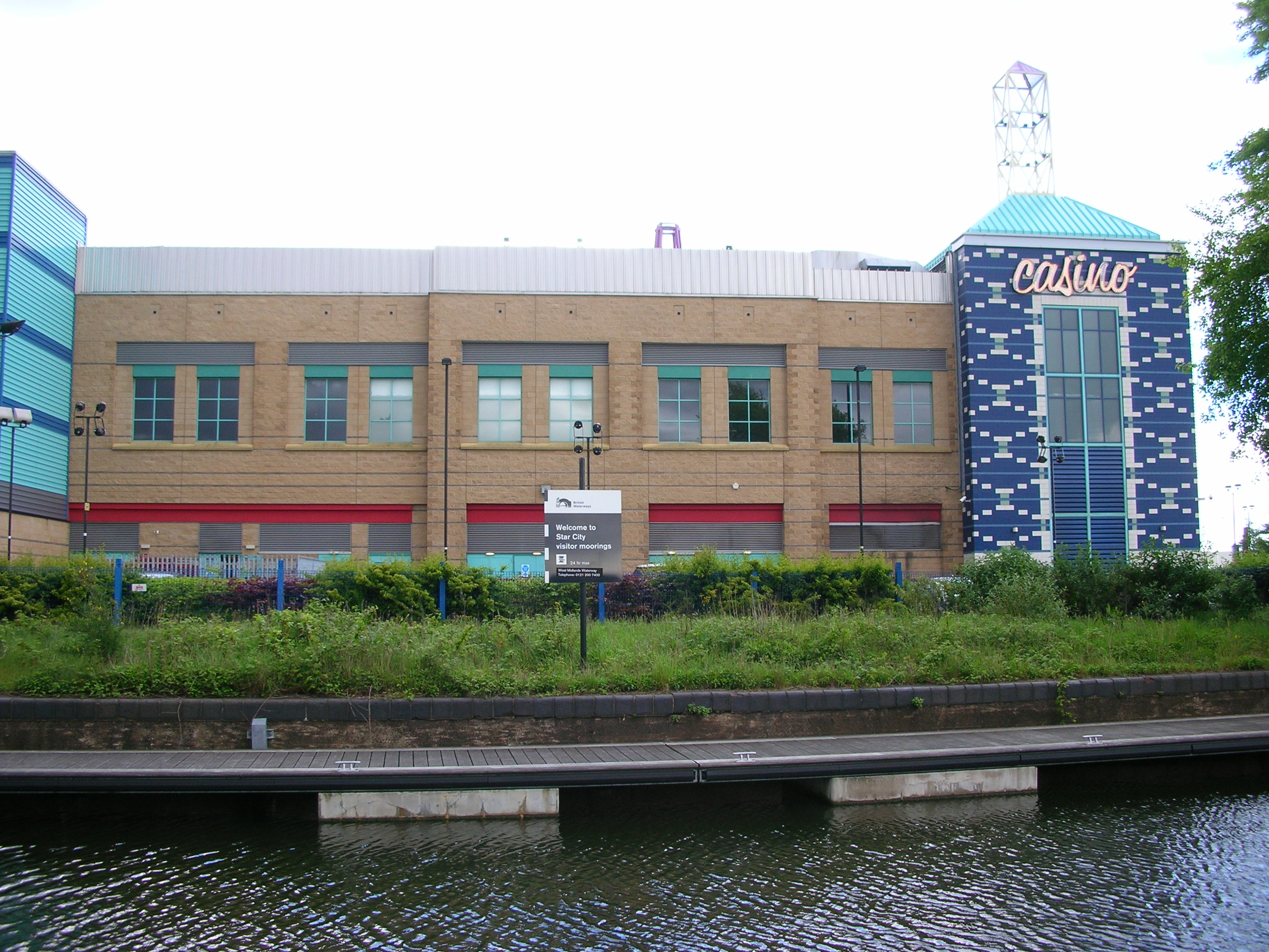 Canal moorings at Star City, Birmingham, England, on the Birmingham and Warwick Junction Canal section of the Grand Union Canal. Photographed by me 12 May 2007. Oosoom